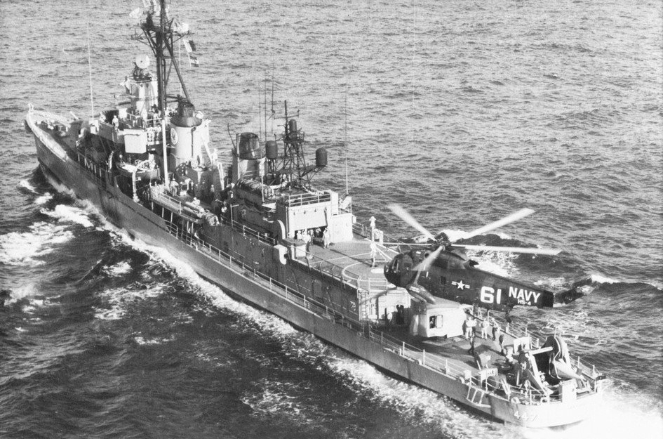 A Sikorsky SH-3A Sea King from Helicopter Anti-Submarine Squadron 4 (HS-4) "Black Knights" deliveres mail to the U.S. Navy destroyer USS Jenkins (DD-447). HS-4 was assigned to Carrier Anti-Submarine Air Group 55 (CVSG-55) aboard the aircraft carrier USS Yorktown (CVS-10) for a deployment to the Western Pacific and Vietnam from 22 October 1964 to 17 May 1965.